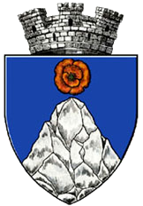 Coat of arms of Targu Carbunesti